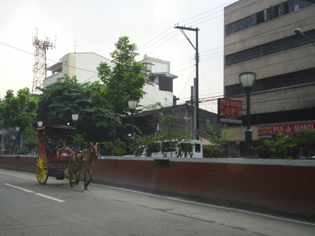 Calesa (horsedrawn carriage) carries child in Tondo Manila